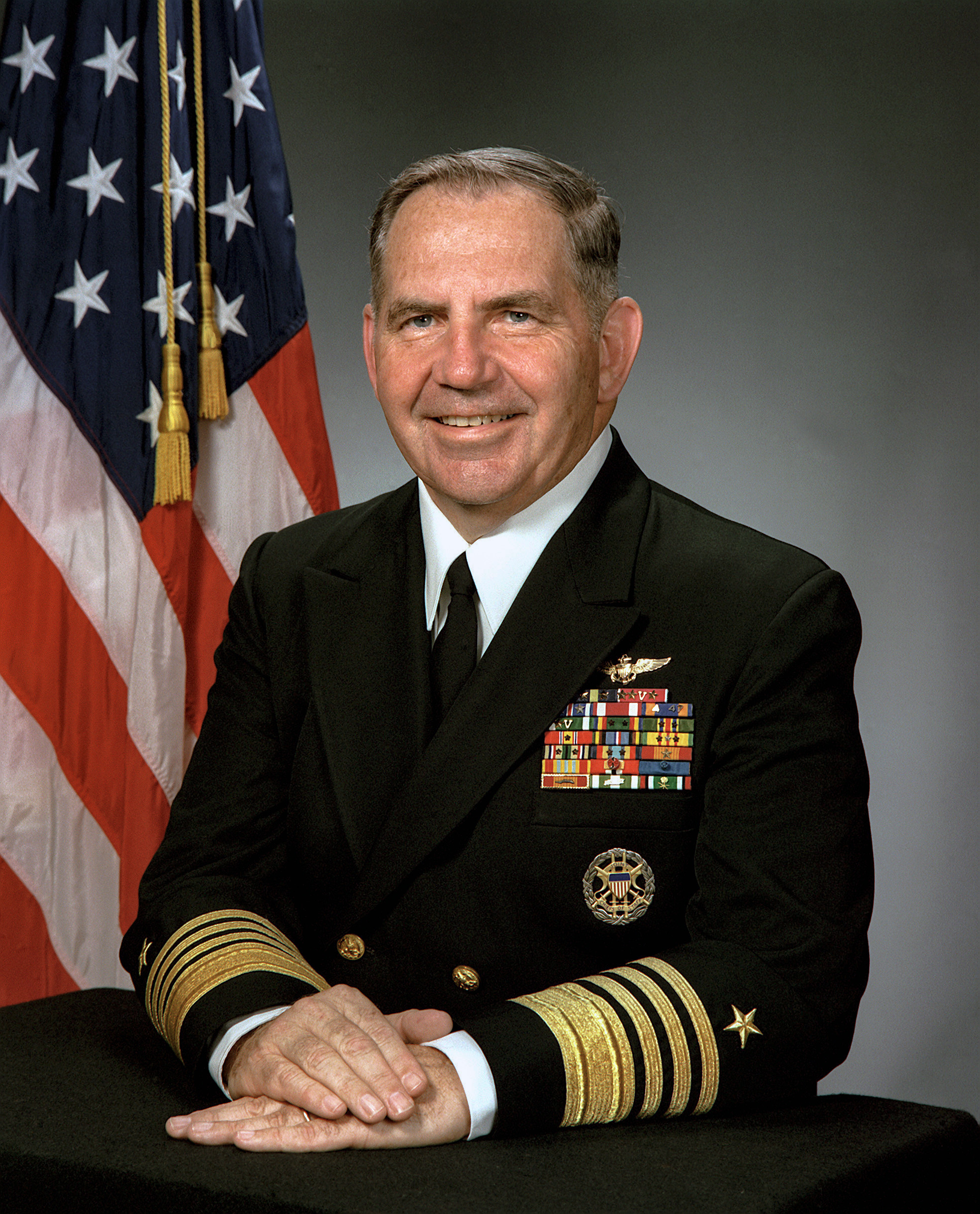 Admiral Stanley R. Arthur